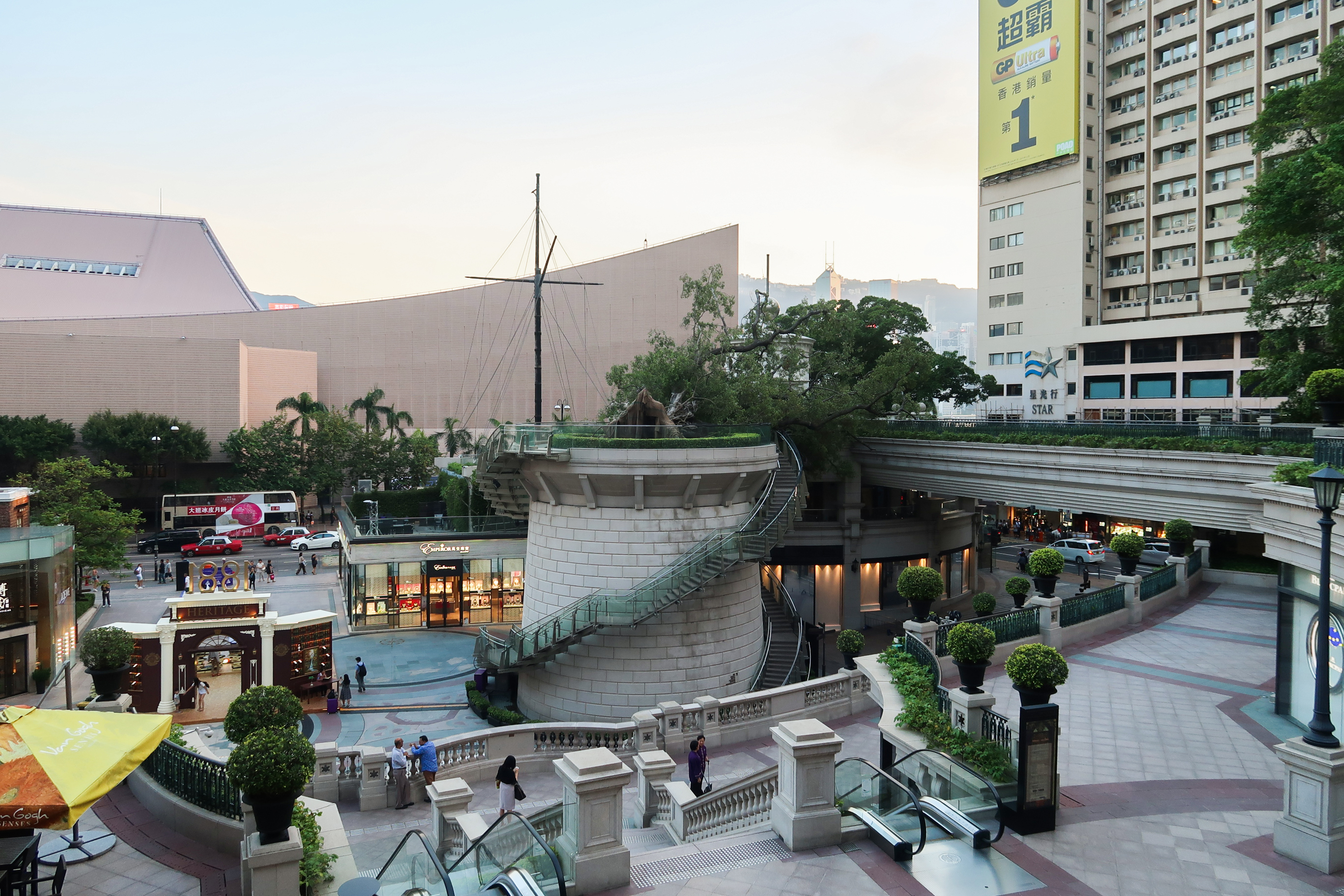 1881 Old Tree collapse after Super Typhoon Mangkhut